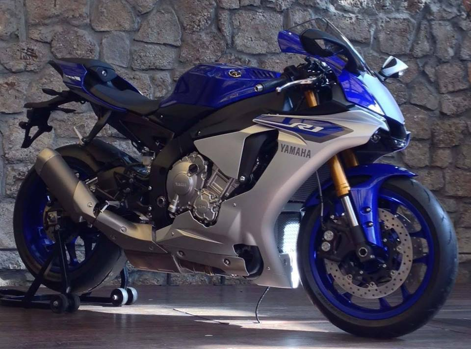 Yamaha YZF-R1 year 2015.